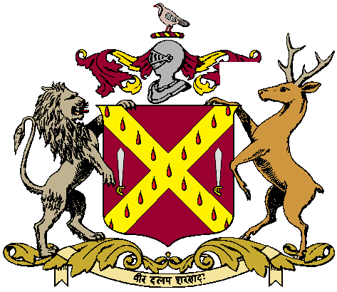 Datia State coat of arms This work is in the public domain in India because its term of copyright has expired. The Indian Copyright Act applies in India, to works first published in India. According to The Indian Copyright Act, 1957 (Chapter V Section 25), Anonymous works, photographs, cinematographic works, sound recordings, government works, and works of corporate authorship or of international organizations enter the public domain 60 years after the date on which they were first published, counted from the beginning of the following calendar year (ie. as of 2019, works published prior to 1 January 1959 are considered public domain). Posthumous works (other than those above) enter the public domain after 60 years from publication date. Any other kind of work enters the public domain 60 years after the author's death. Text of laws, judicial opinions, and other government reports are free from copyright. Photographs created before 1959 are in the public domain 50 years after creation, as per the Copyright Act 1911. This file may not be in the public domain outside India. The creator and year of publication are essential information and must be provided. See Wikipedia:Public domain and Wikipedia:Copyrights for more details. This image shows a flag, a coat of arms, a seal or some other official insignia. The use of such symbols is restricted in many countries. These restrictions are independent of the copyright status.